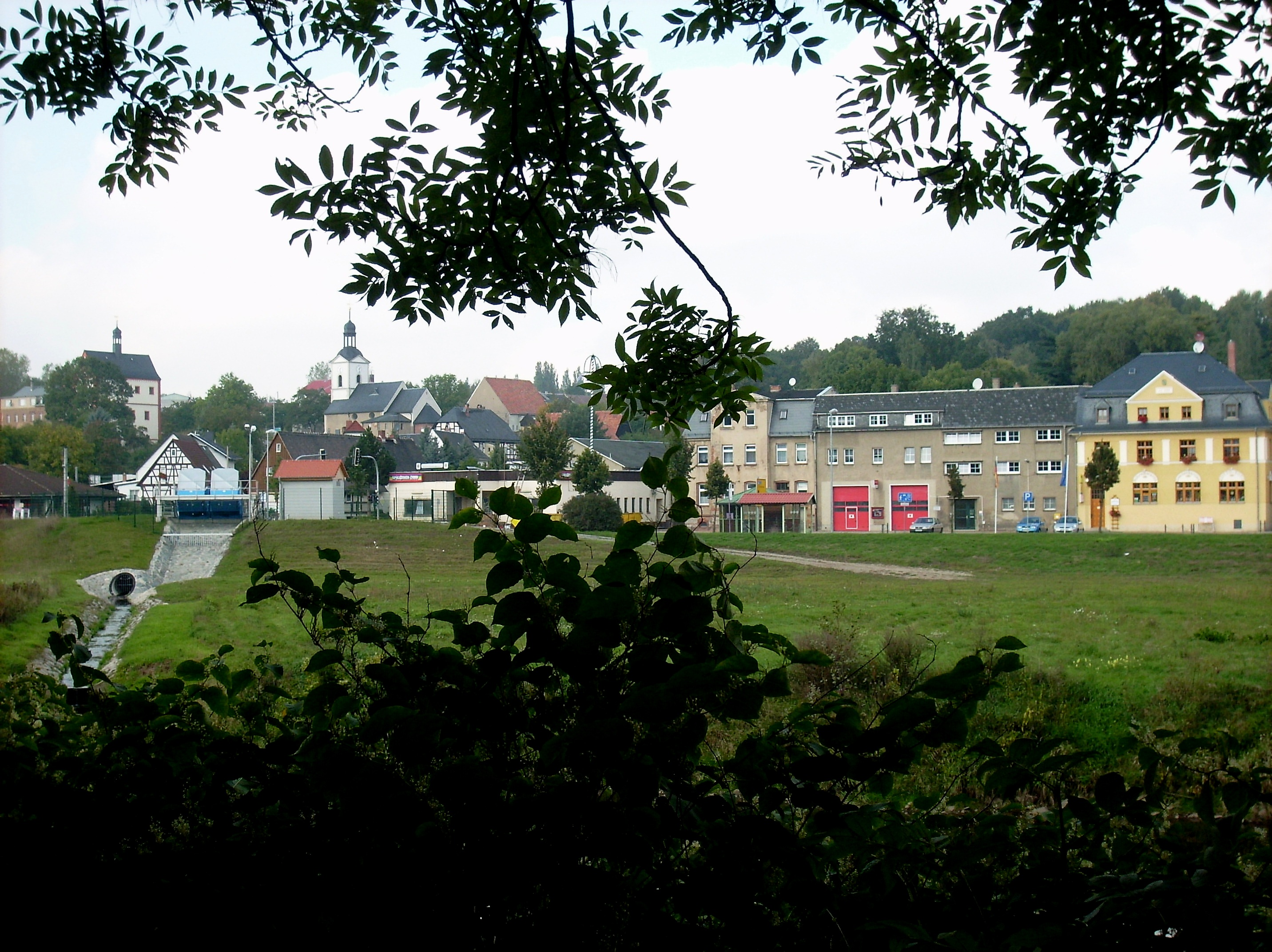 View of Remse (Zwickau district, Saxony) across the Zwickauer Mulde with the former Benedictine convent Rother Stock and St. George Church